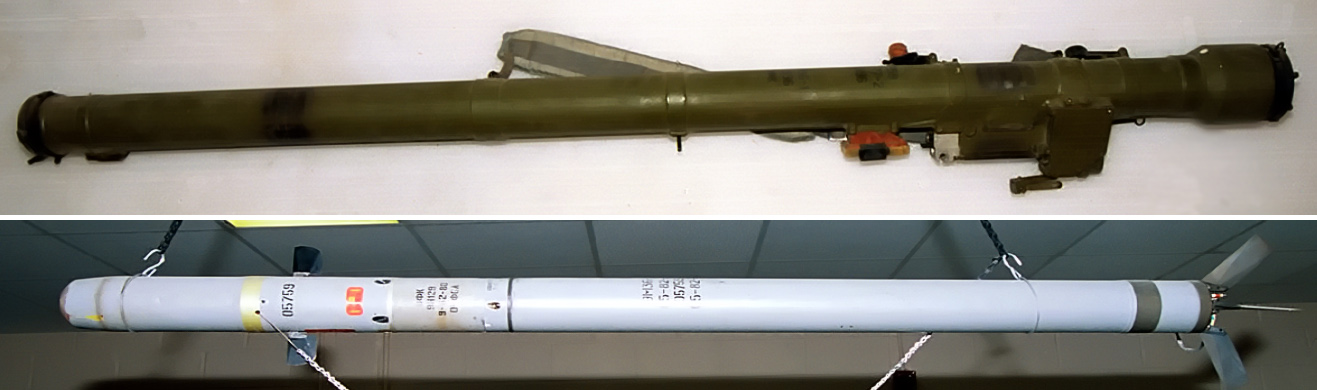 An SA-14 missile and launch tube (without grip stick).